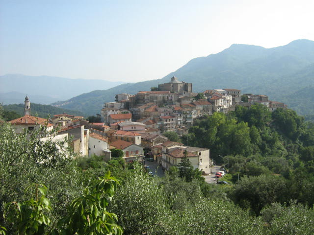 Panoramic view of Rofrano